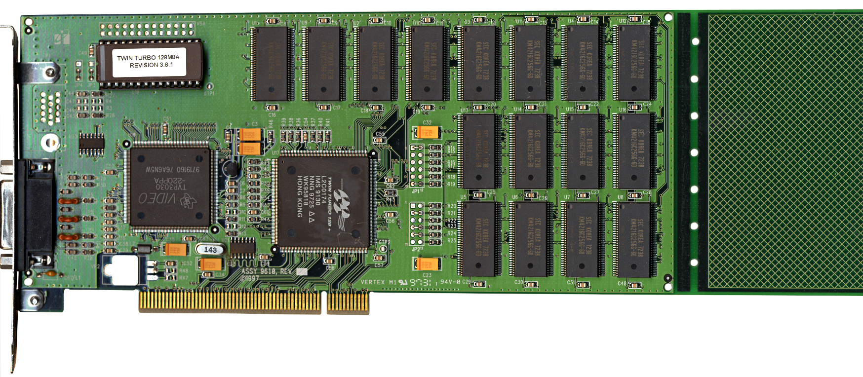 IMS Twin Turbo 128, scanned by me